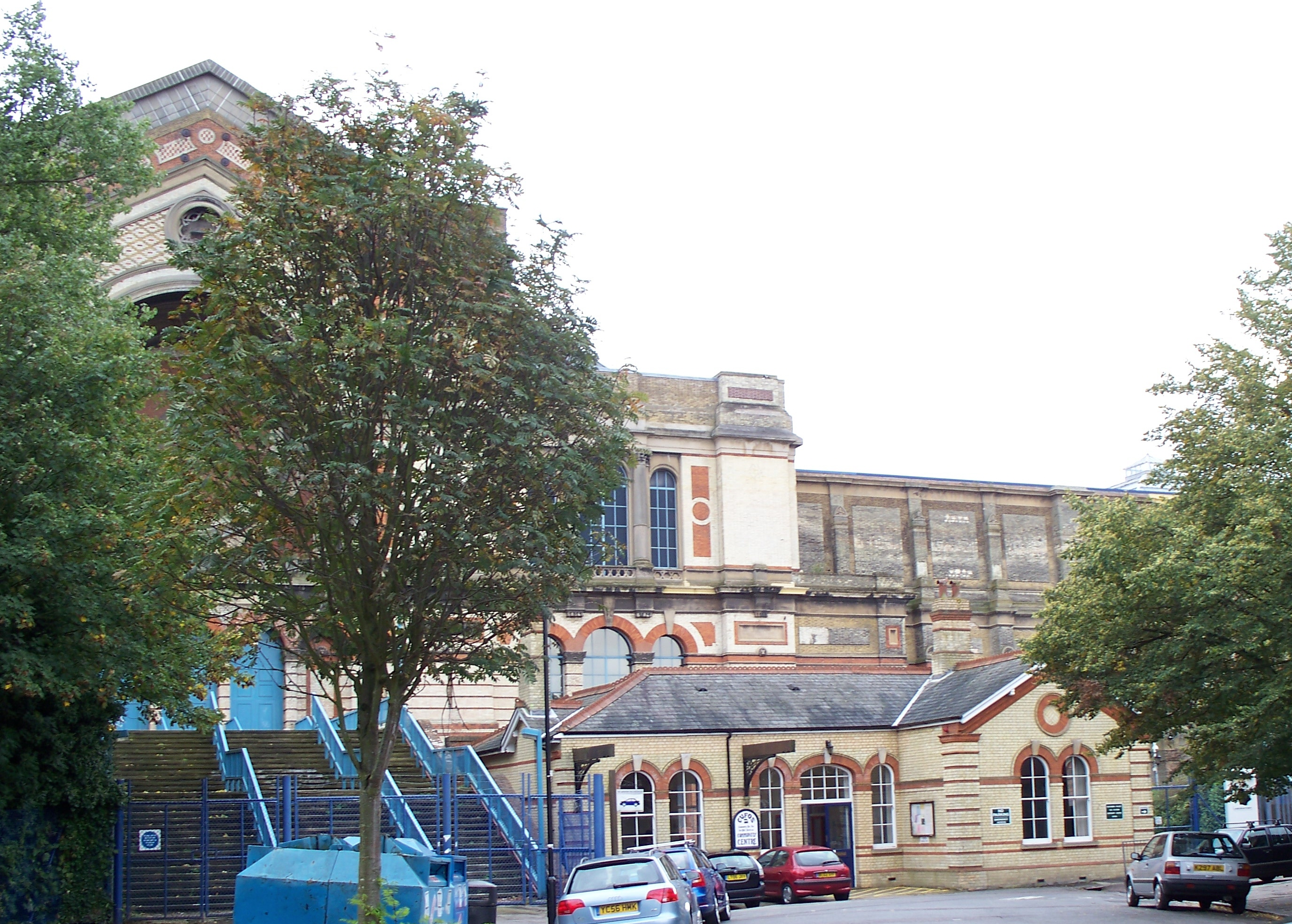 Disused Alexandra Palace railway station, London